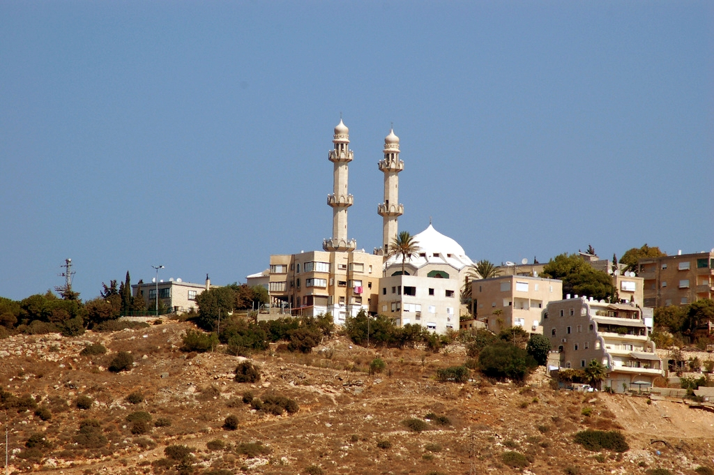 Ahmadi Mosque in Kababeer Neighborhood on Carmel - Haifa